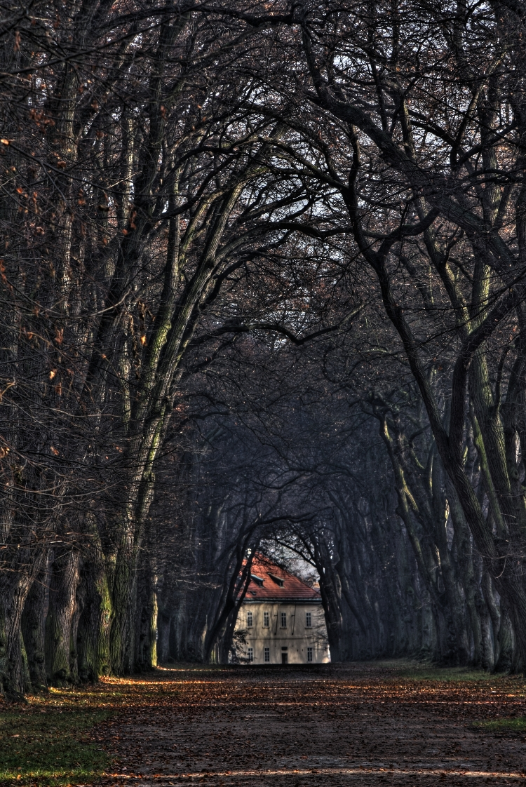 Autumnal forest in Prague (Czech Republic). HDR photography